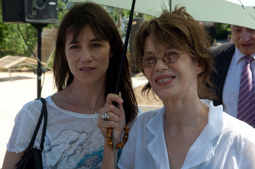 Jane Birkin, Charlotte Gainsbourg